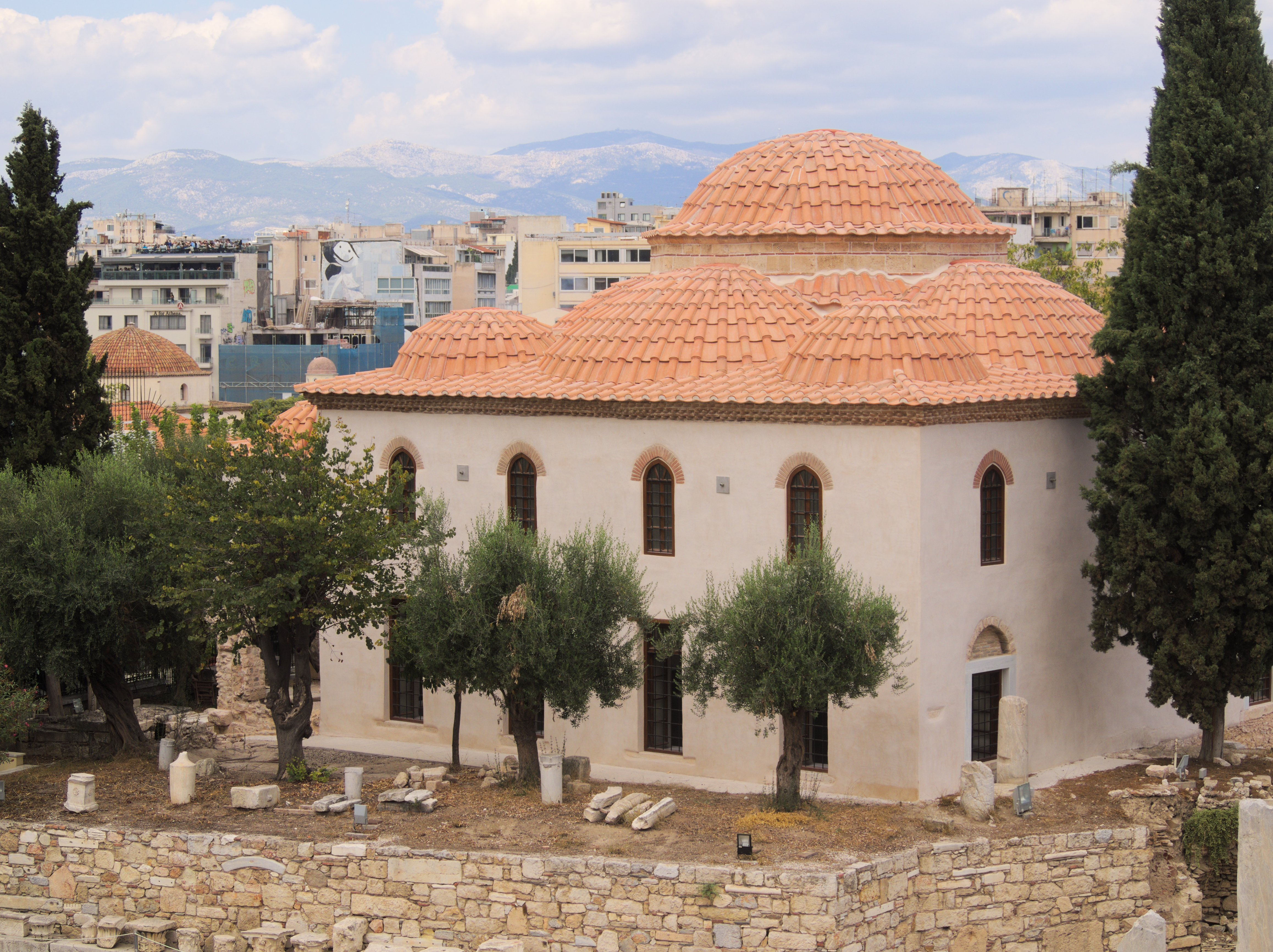 Fetiye mosque in Athens after its restoration.